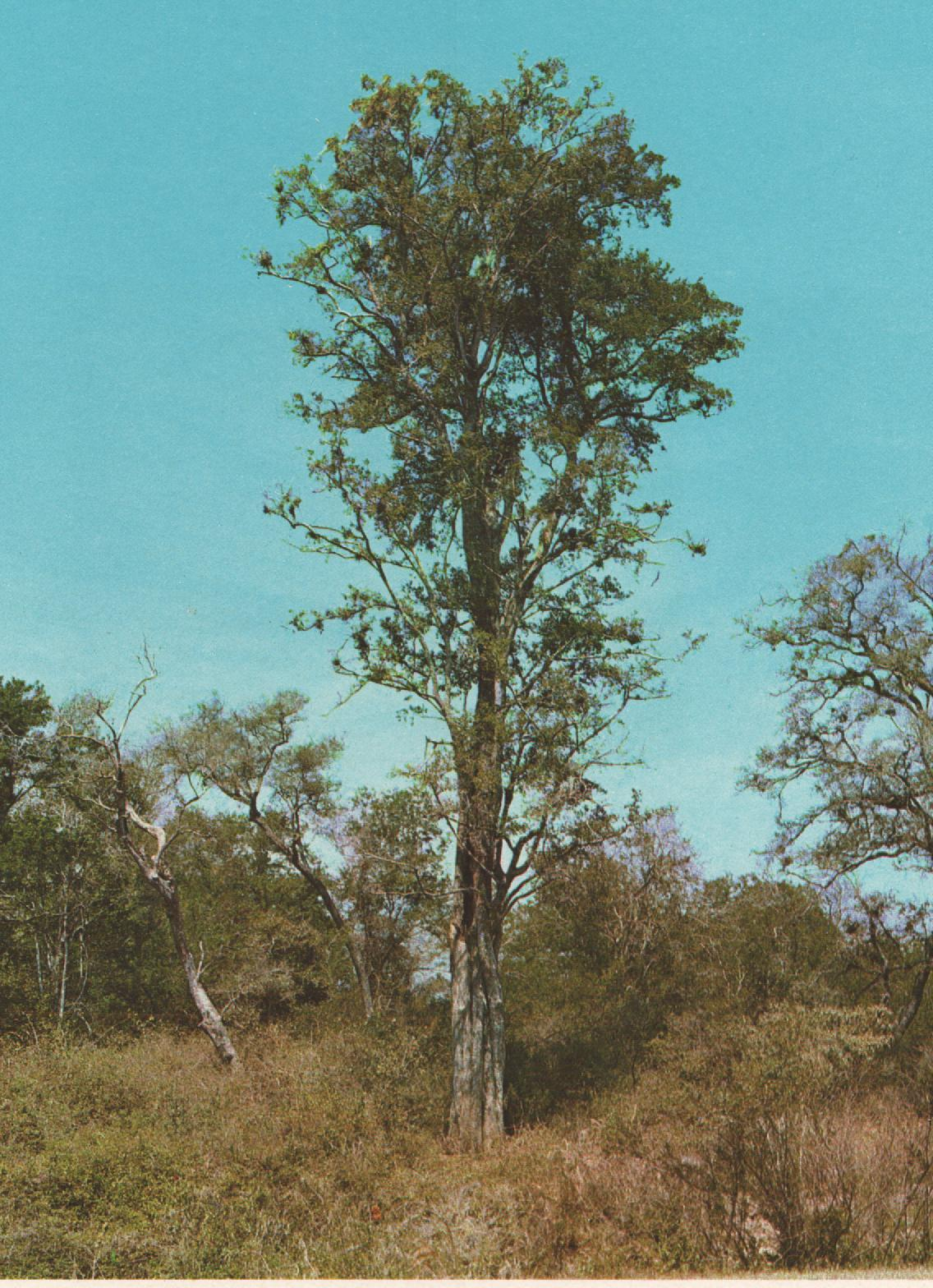 An example of Phyllostylon rhamnoides in Argentina.